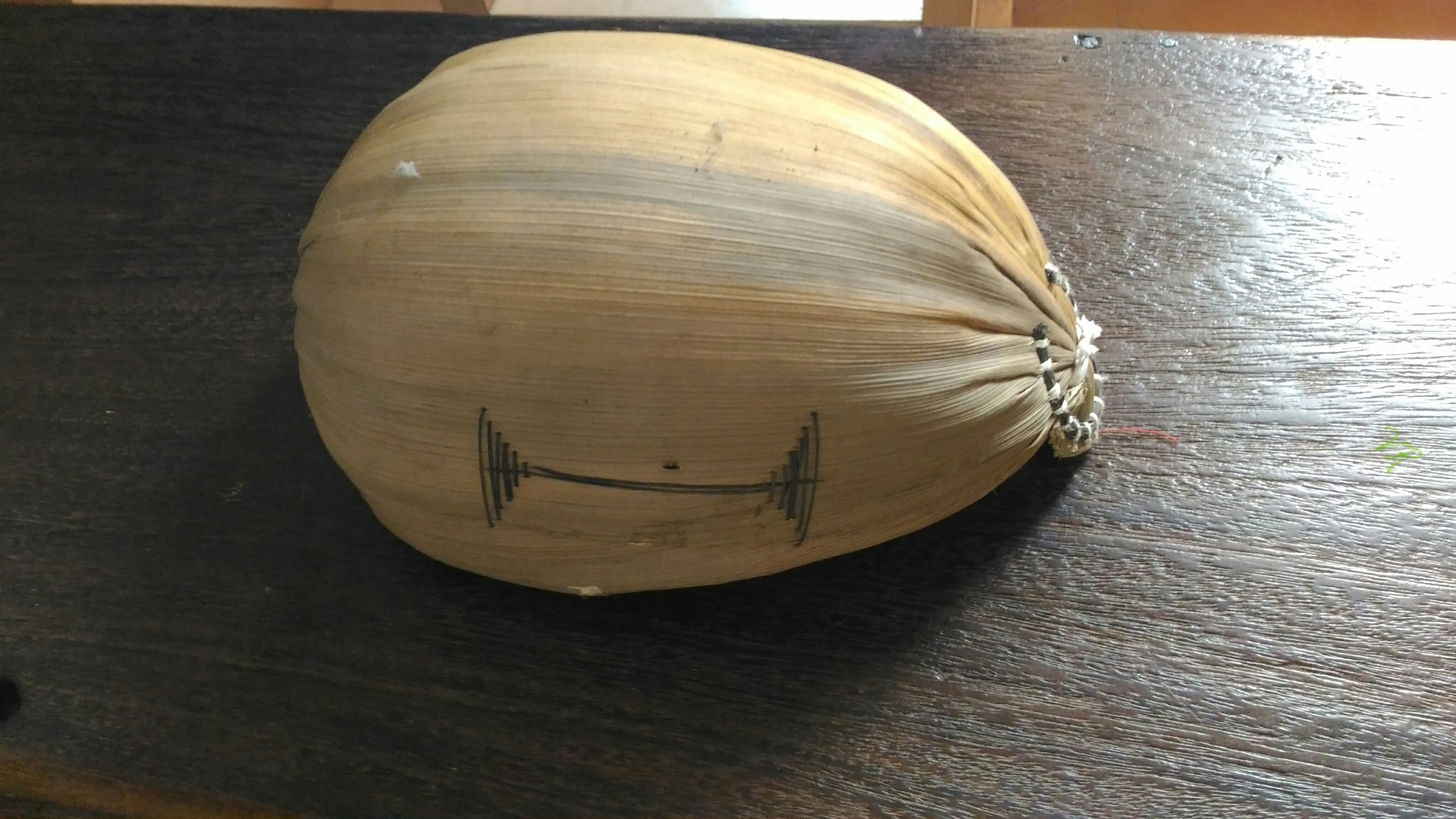 Hat_ palathoppi_ outer view